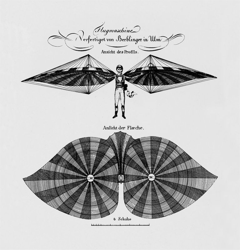 construction design of the plane of Albrecht Berblinger, a flight pioneer called "Schneider von Ulm" (tailor from Ulm).